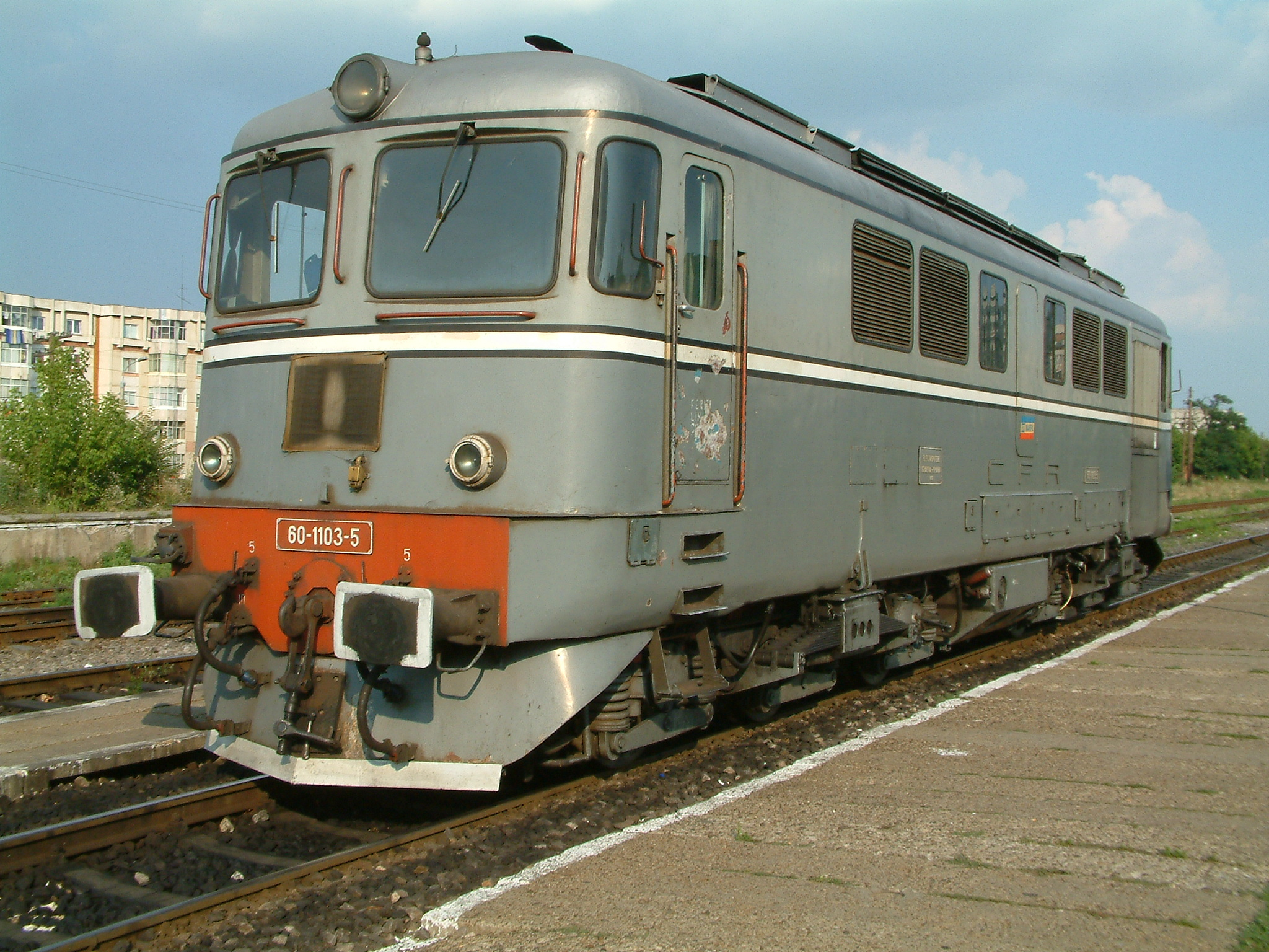 CFR locomotive 60-1103-5 at Pitesti